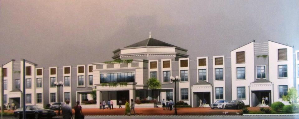 IIS Ajman new building 2012